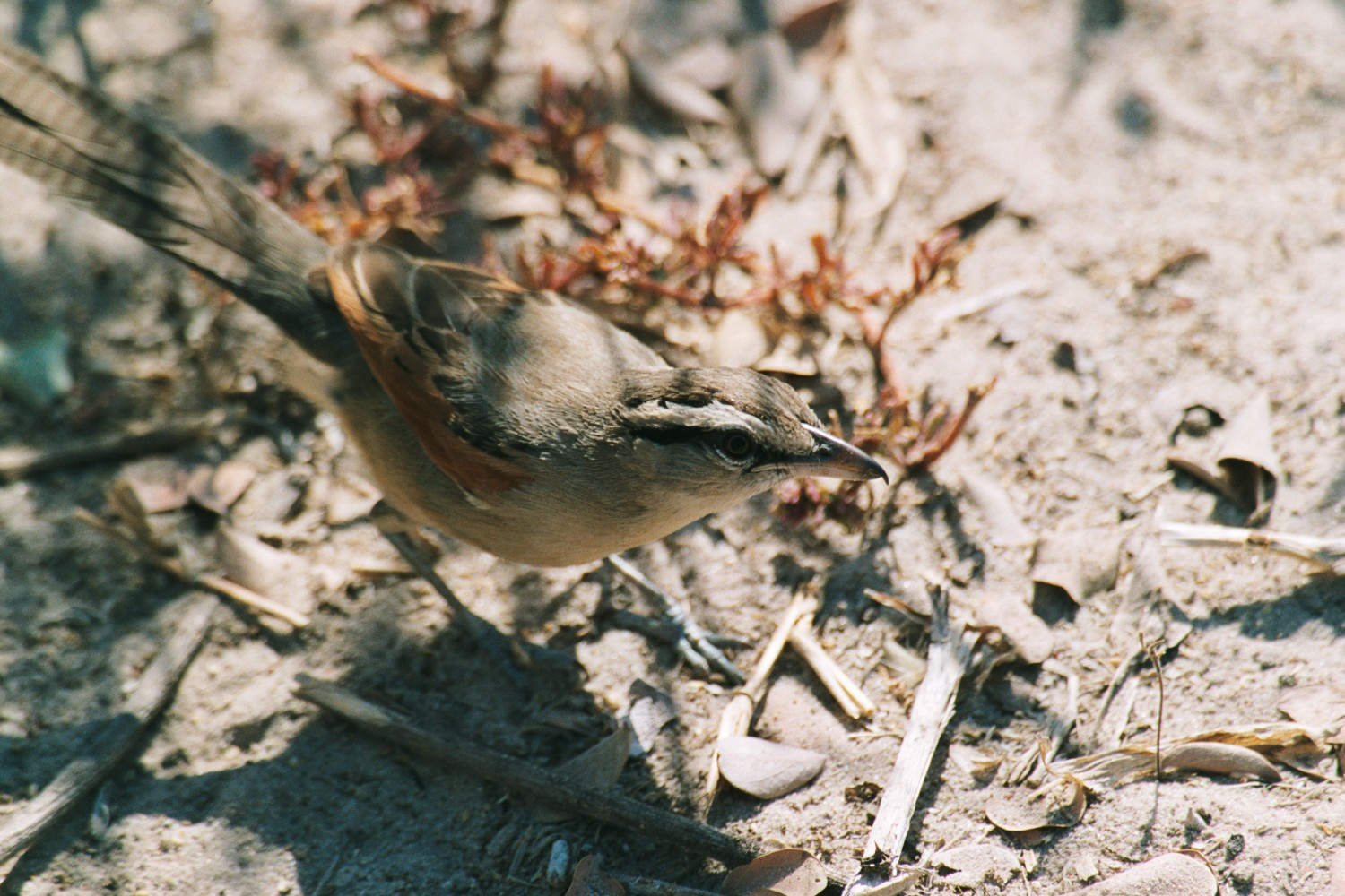 Brown-crowned Tchagra (Tchagra australis), taken in Okavango Delta, Botswana